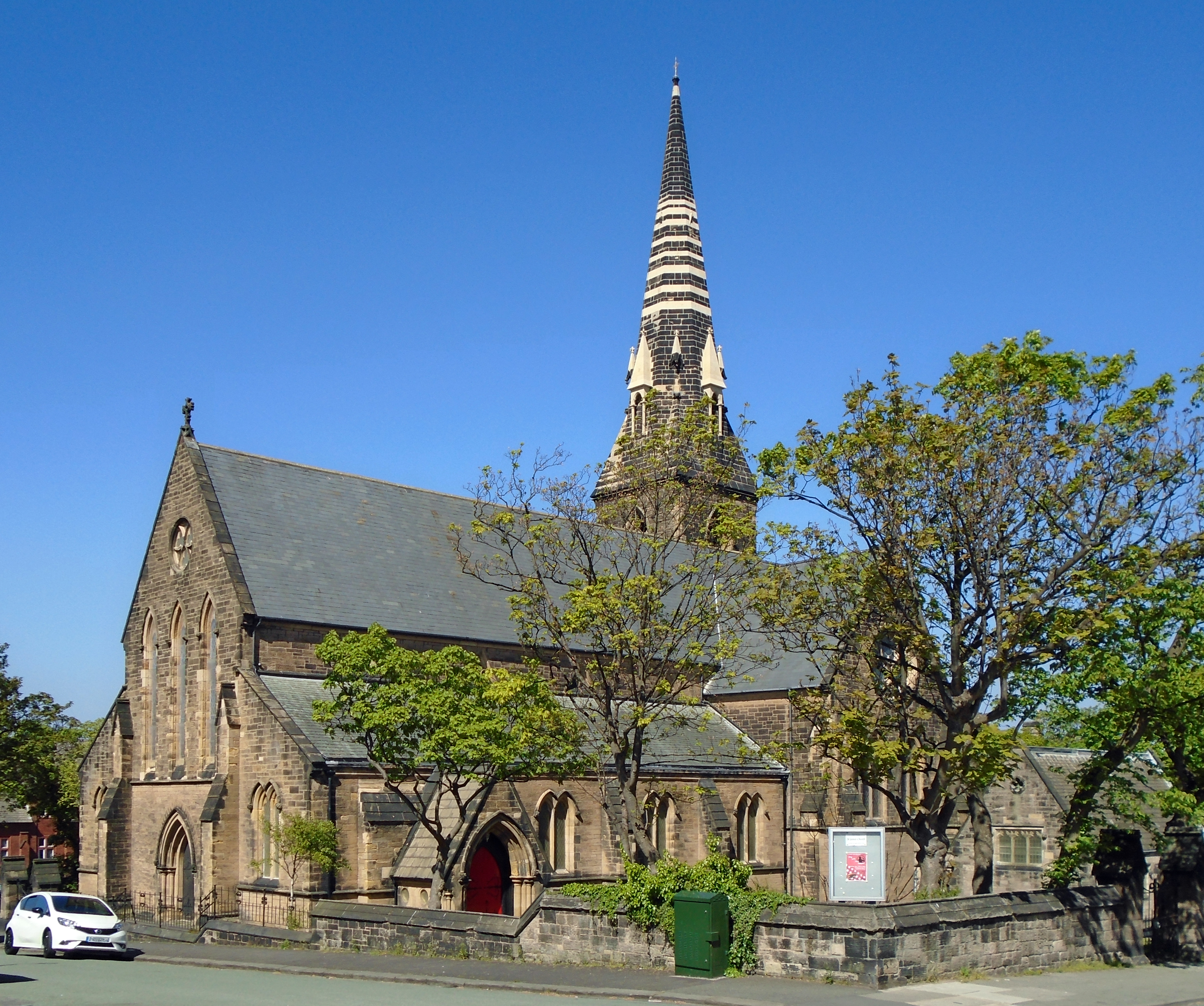 View from opposite Fowell Road